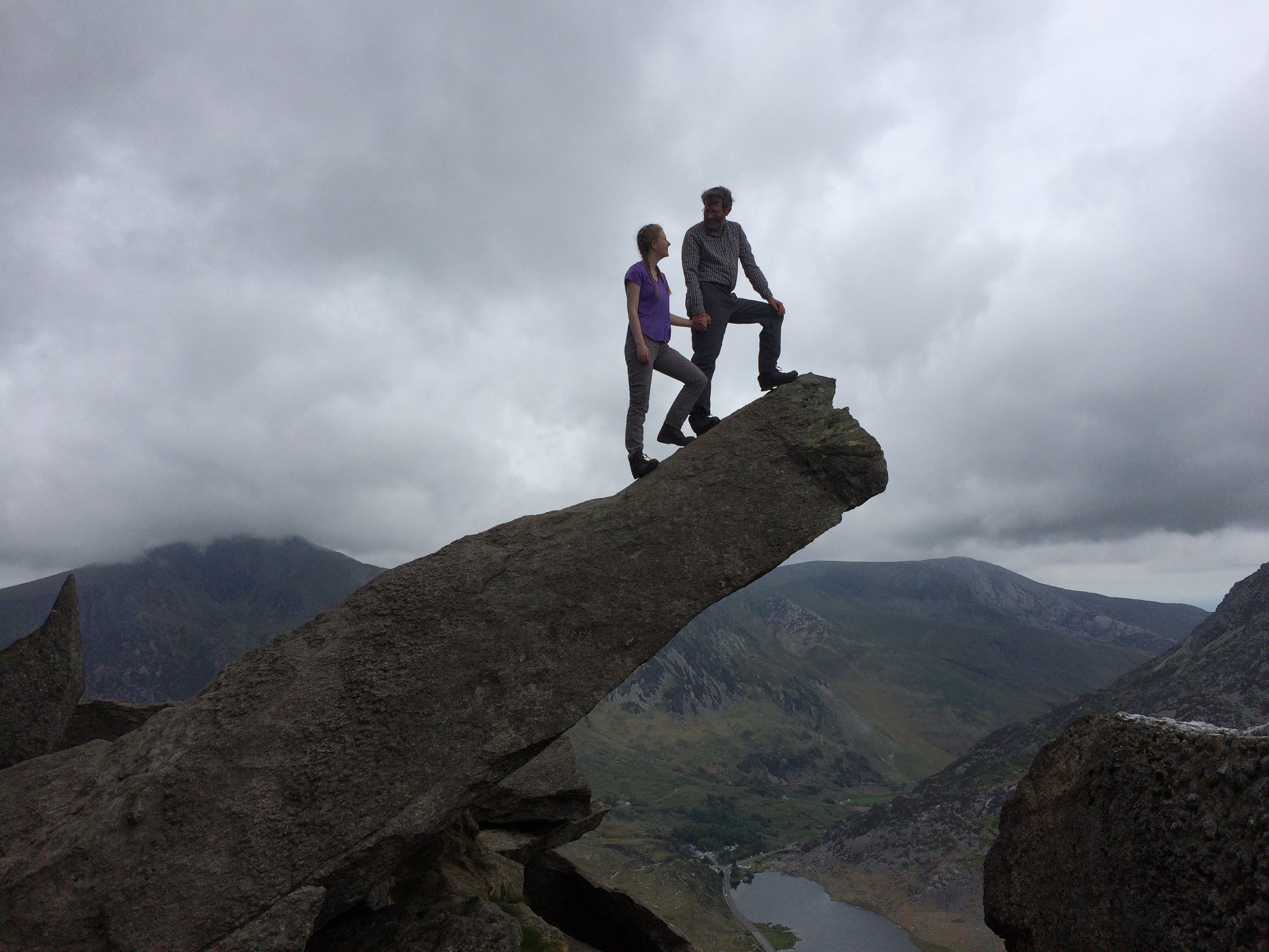 Father and daughter standing together on The Cannon Stone, North ridge of Tryfan, Ogwen Valley, Snowdonia, Wales. (Llyn Ogwen in background.